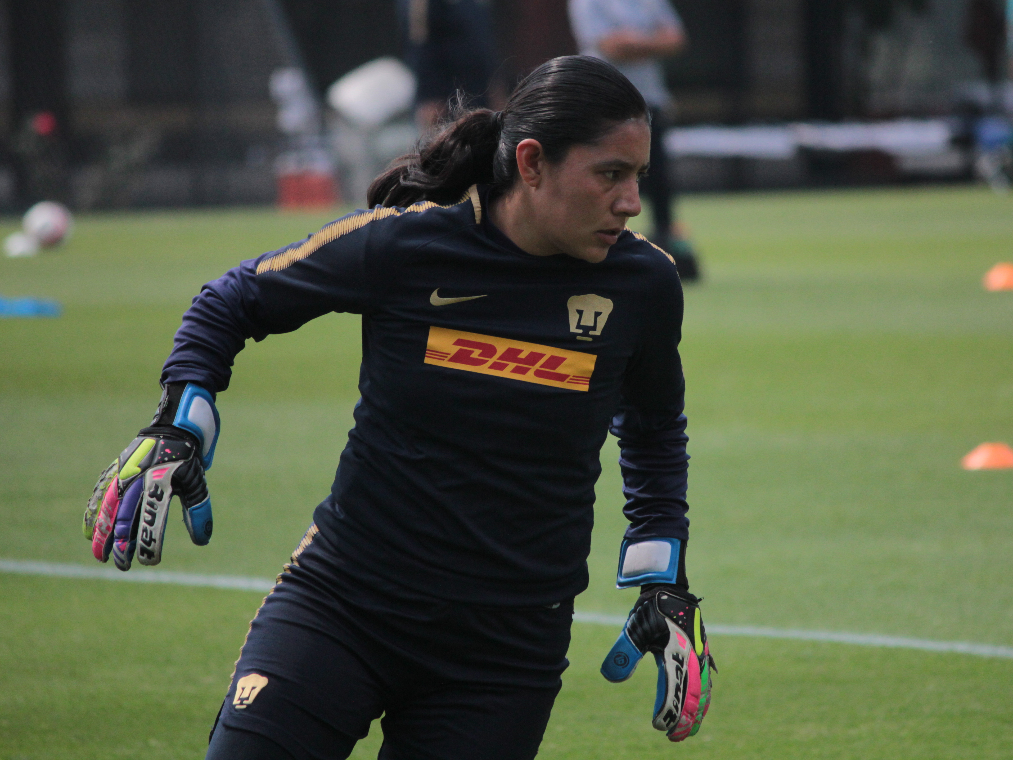 Pumas UNAM player Brissa Rangel